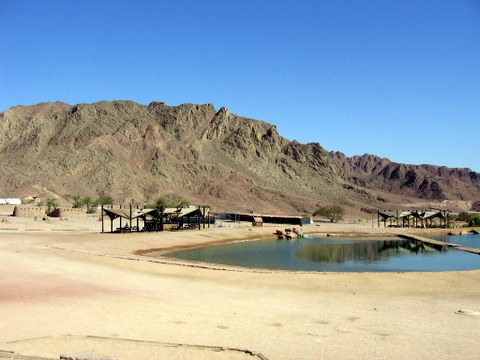 timna lake